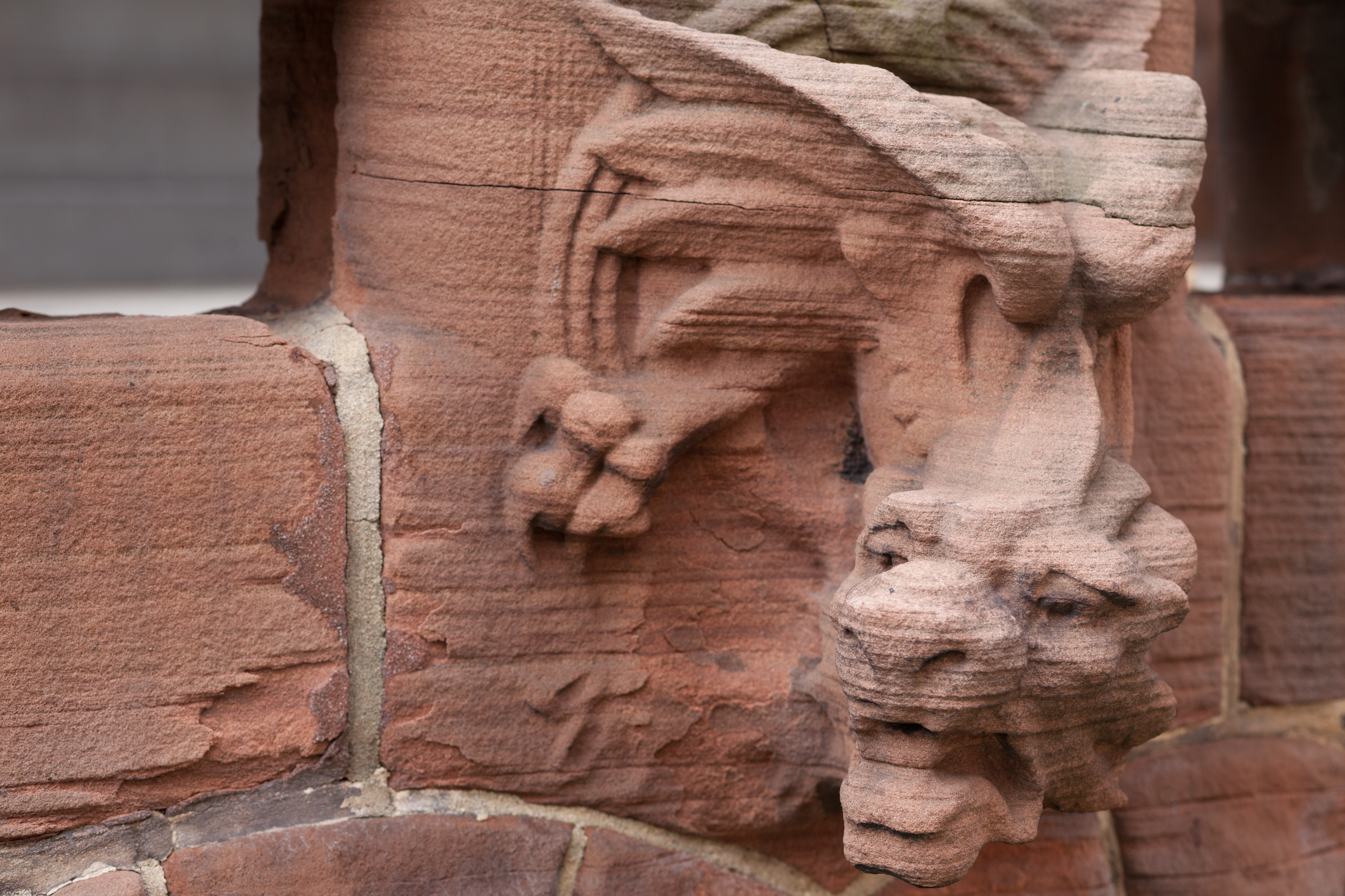 A sandstone dragon on the Herman Behr Mansion in Brooklyn Heights.